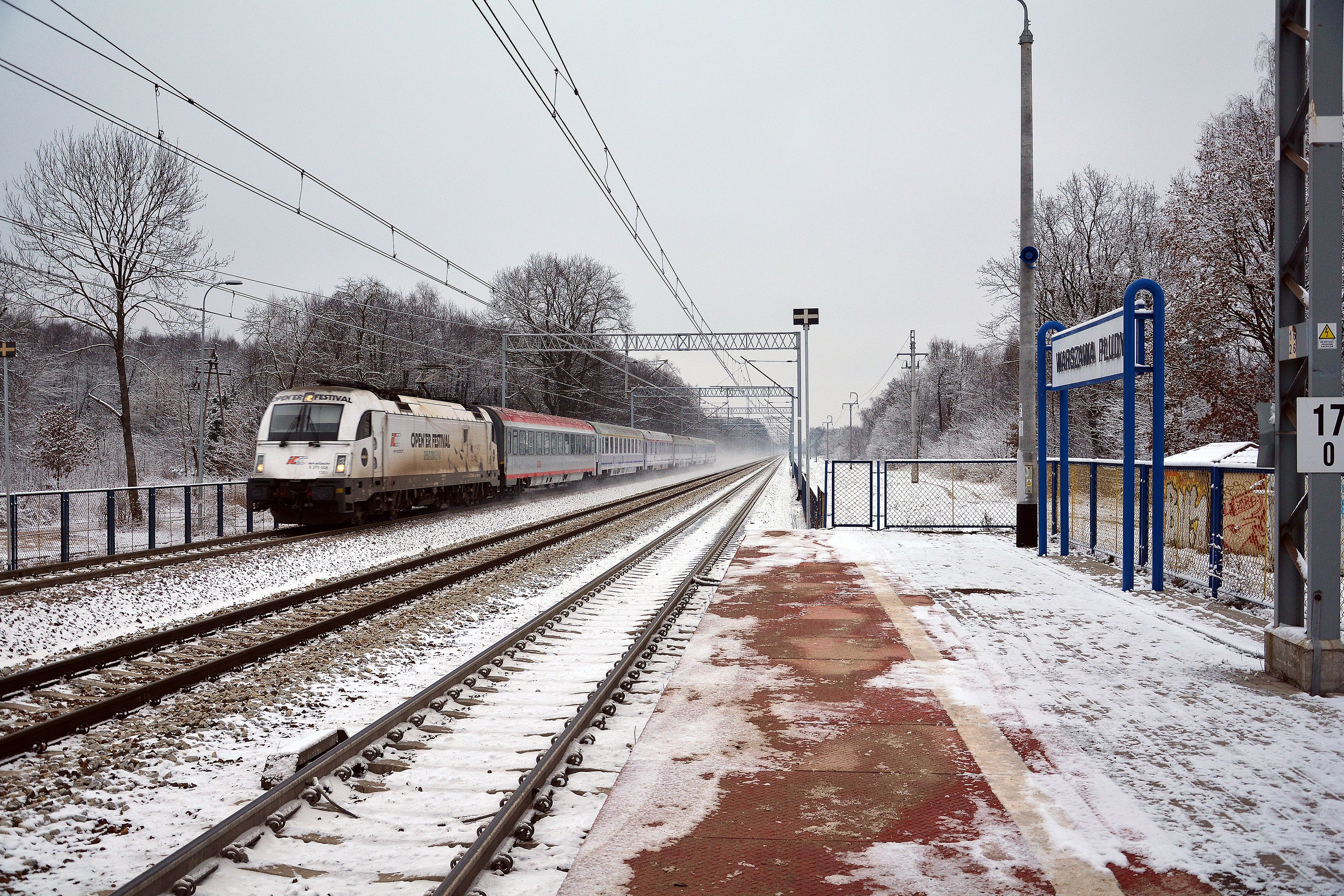 EIC 135 Sobieski passing Warszawa Pludy